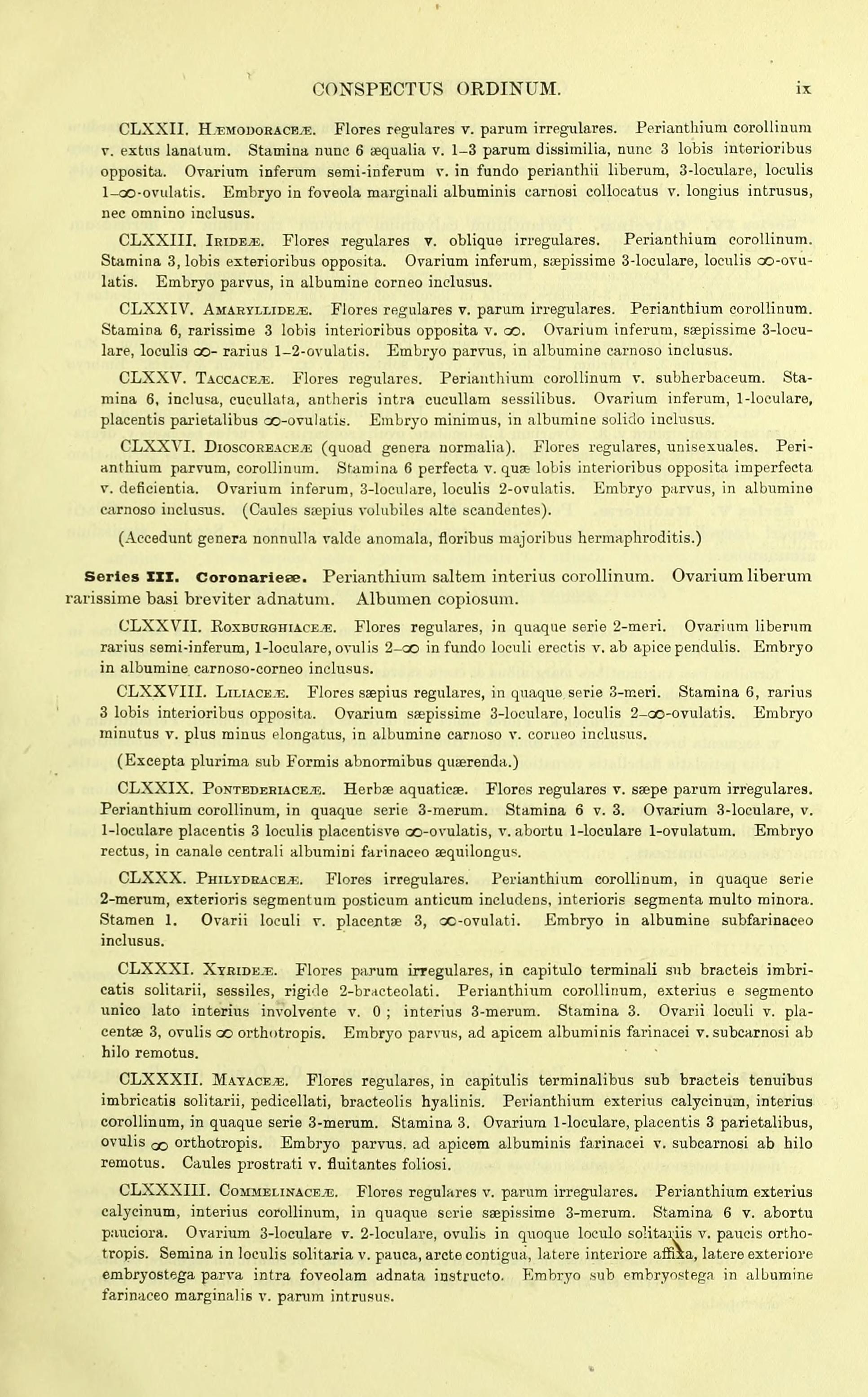 Bentham and Hooker's conspectus of Coronariae